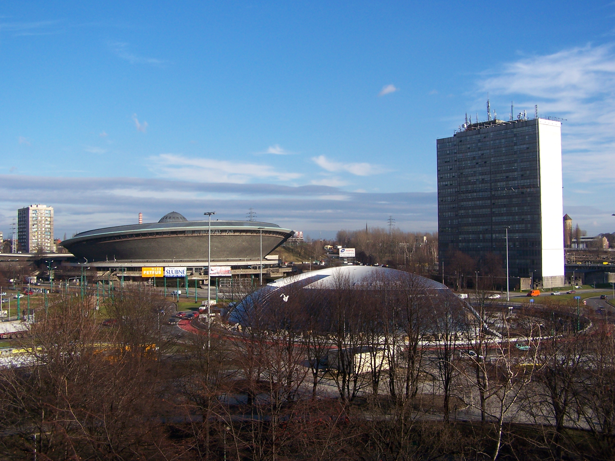 Spodek, Jerzy Ziętek Rondo and DOKP in Katowice (view from Superjednostka).